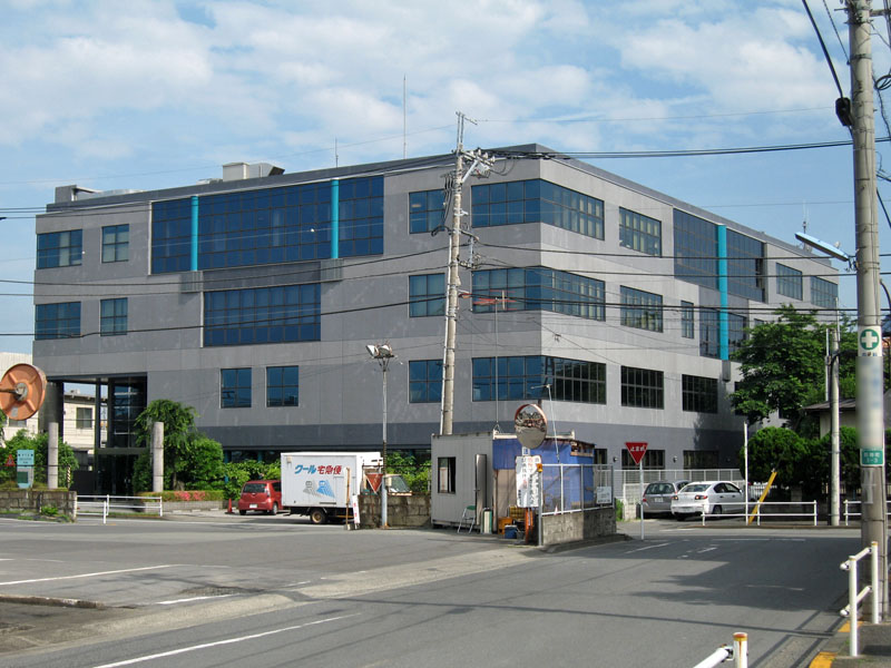 Nishi Tokyo Bus and Tama Bus Headquarters (NTB Hachioji Building) in Hachioji, Tokyo, Japan